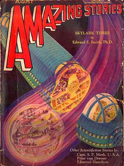 Cover for Amazing Stories magazine, August 1930 (v.5 #5).